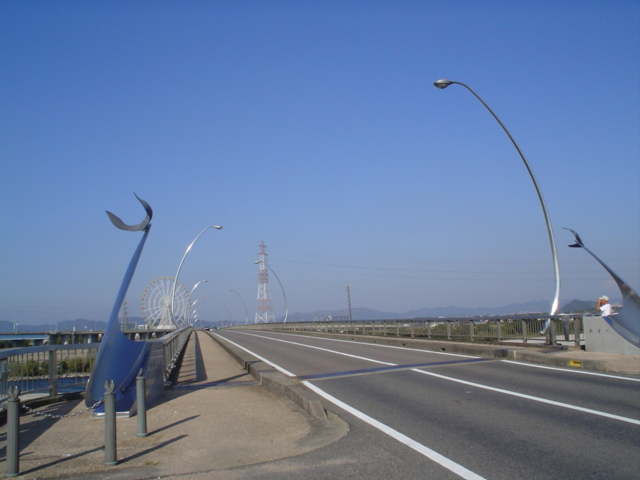 The bridge which is built over Kiso River in Gifu, Japan.